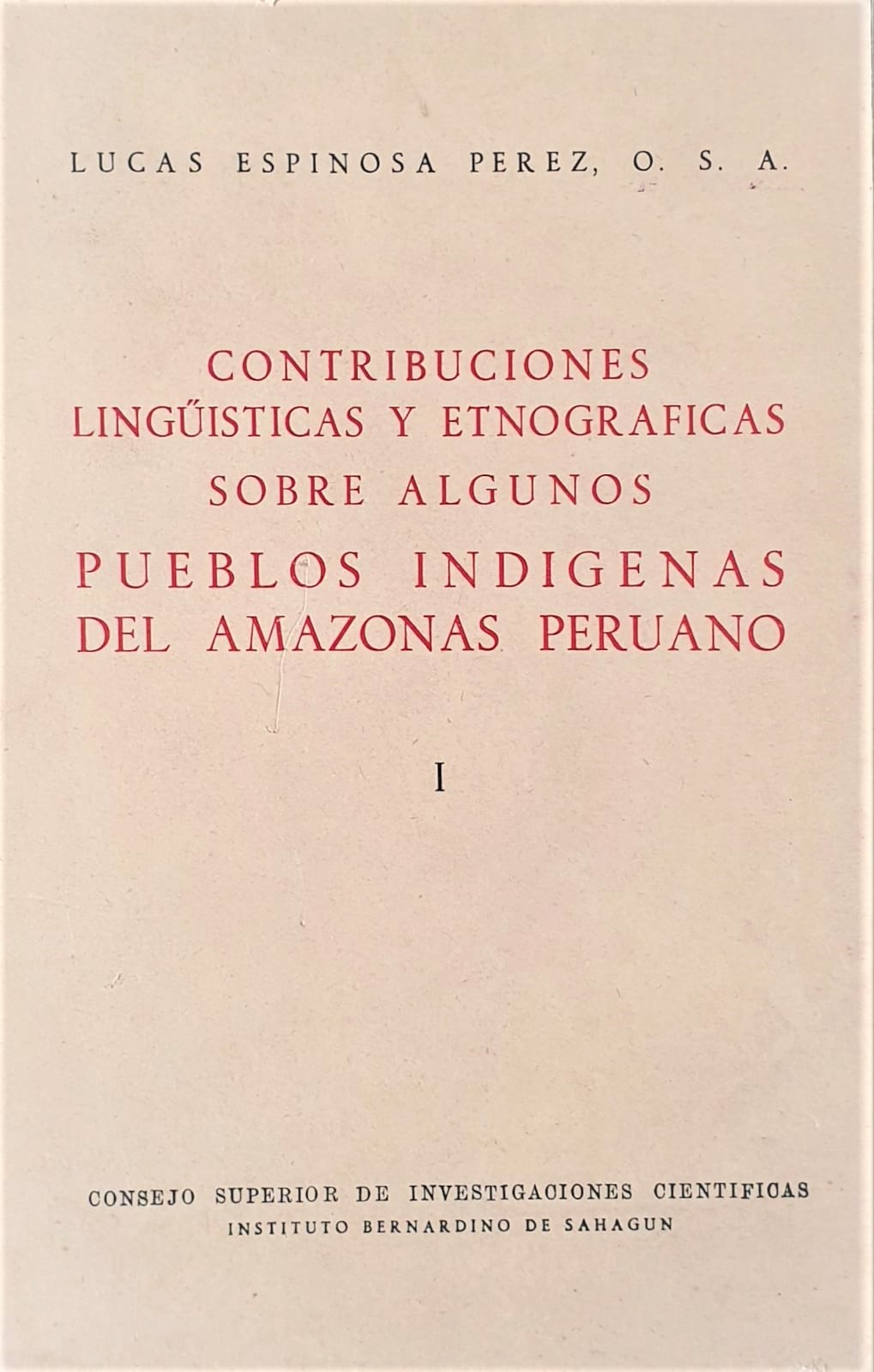 ESPINOSA PEREZ, LUCAS (1955) Contribuciones lingüísticas y etnográficas sobre algunos pueblos indígenas del Amazonas peruano MADRID: Consejo Superior de Investigaciones Científicas. Instituto Bernardino de Sahagún. Madrid. Sucesores de Rivadeneyra S. A.